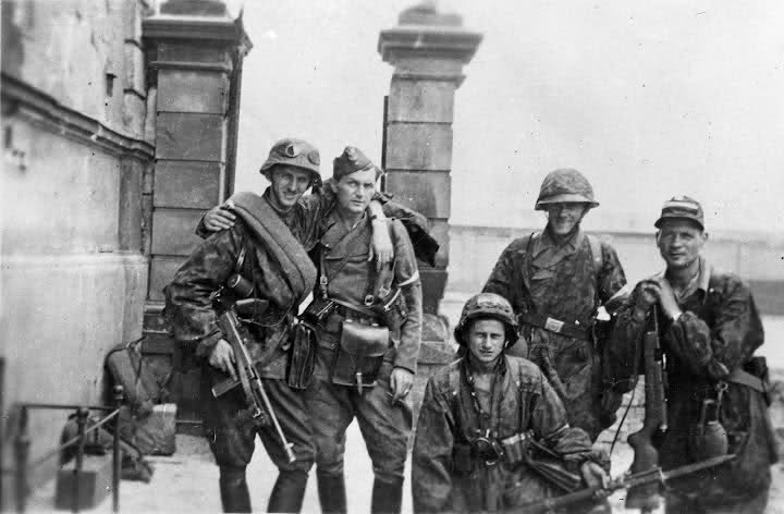 WarsawUprising: Soldiers from Kolegium "A" of Kedyw on Stawki Street in Wola district.